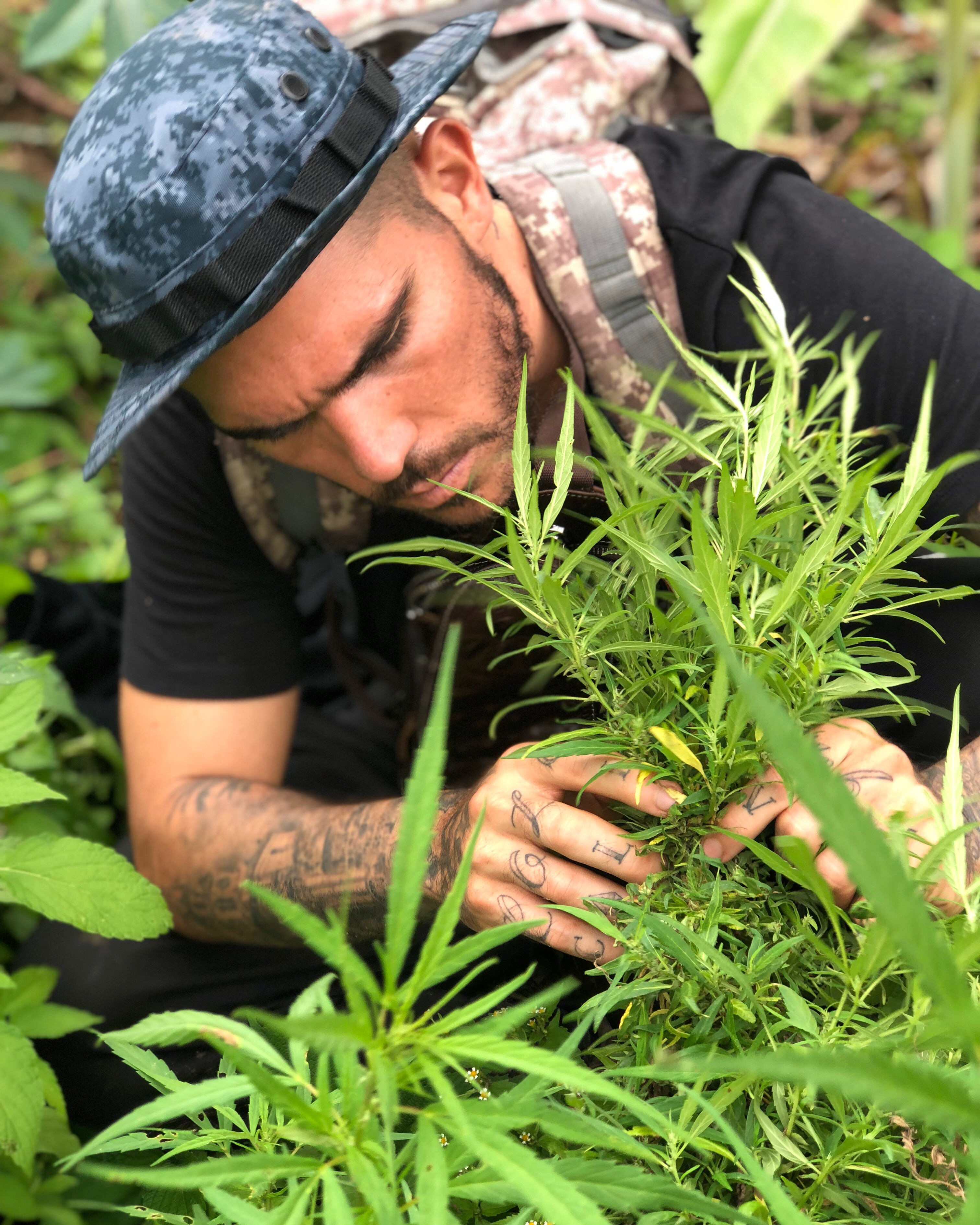 Colombia Cannabis Group was founded in September 2018 by Manolo Rivera and Harold Rivera. The first legal medicinal cannabis company in Colombia, South America to hold cultivation licences of both psychoactive and non psychoactive cannabis for study and export of derivatives. Colombia Cannabis Group is a vertically integrated cannabis group that operates within colombia´s Access to Cannabis for Medical Purposes Regulations Law 1787 of 2016 and Decree 613 of 2017 for exports globally.